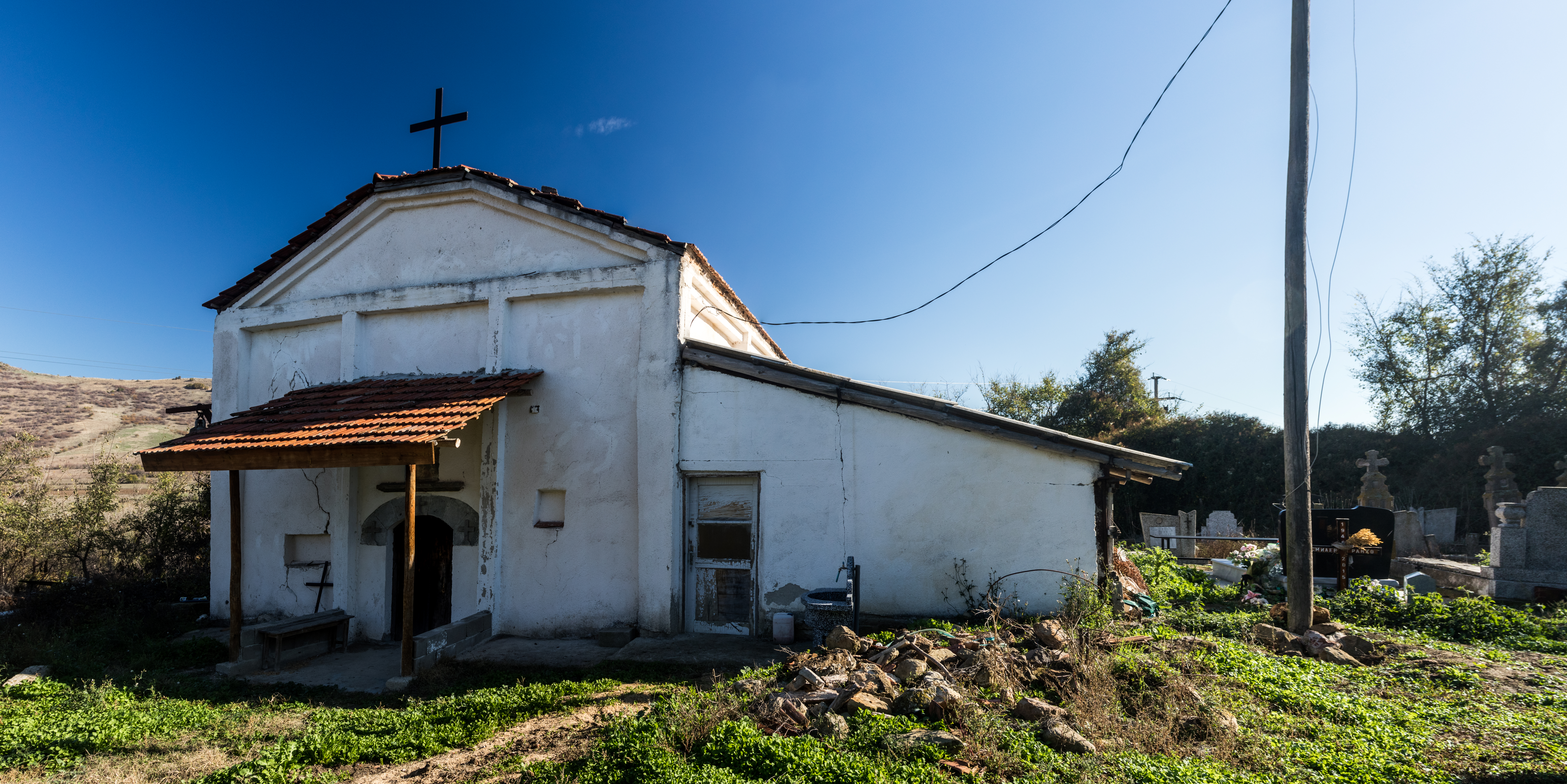 St. Elijah Church in the village of Puzderci, Zletovo-Probištip Region, Macedonia